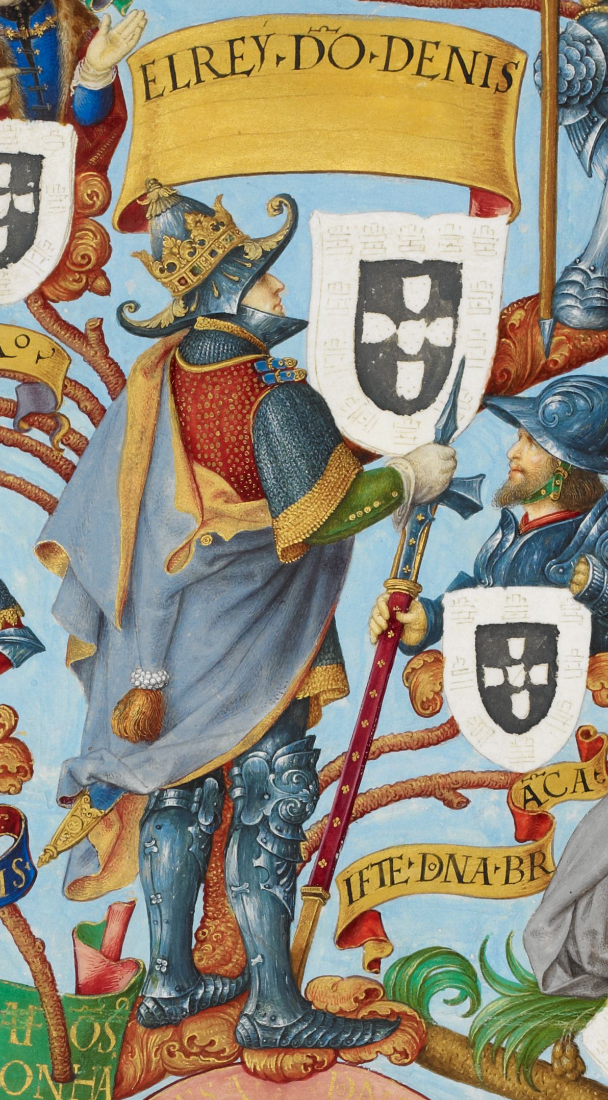 King Denis of Portugal (1261-1325), in a 16th-century miniature.